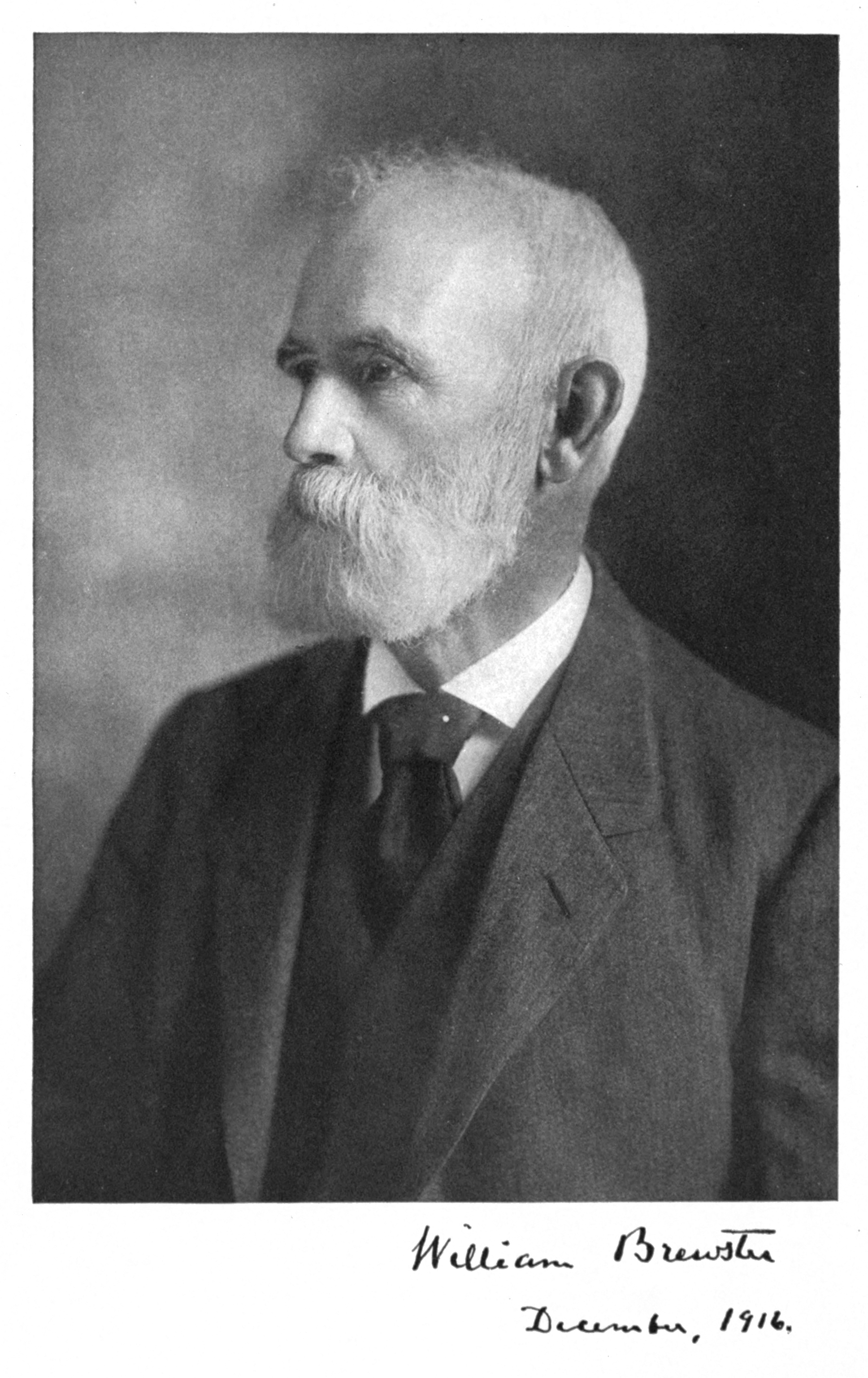 Portrait of William Brewster published in memoriam in the Jan 1920 issue of The Auk, Vol 37